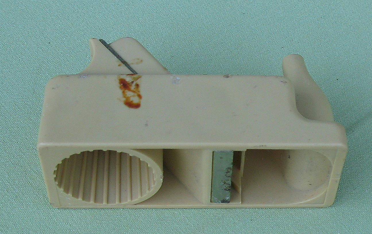 Ølhøvl af Plastic. This file was made by B. M. Askholm, Please credit this: B. Askholm foto 2006. An email to B. Mathias at baskholm(--) would be appreciated too.